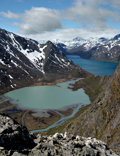 View from Knutshøi towards central JotunheimenNorsk bokmål: Øvre Leirungen og Gjende sett fra Knutshøi